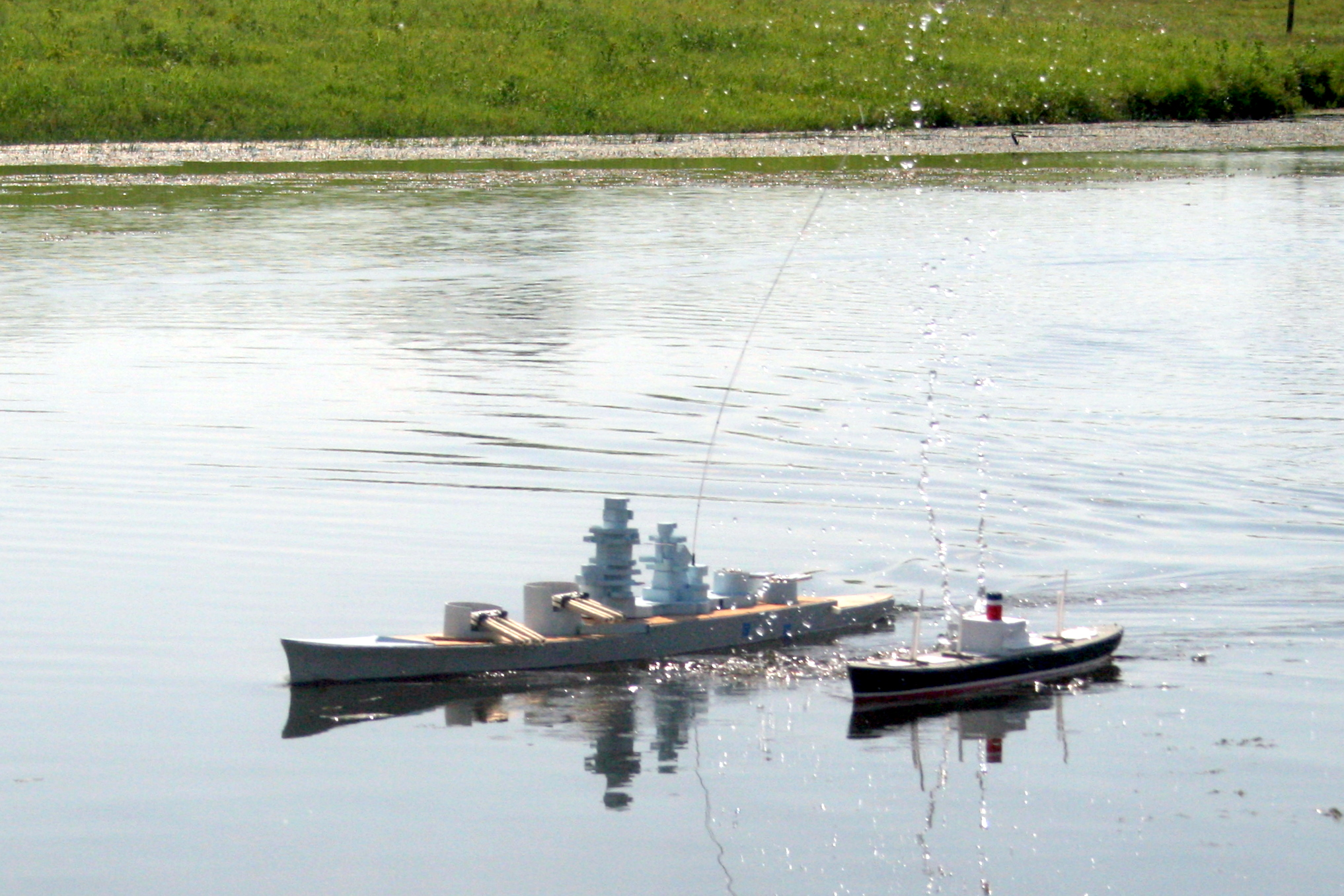 Vichy French Battleship Verdun takes a shot at the Liberty ship USS Nathaniel Greene at the 2007 NABGO event